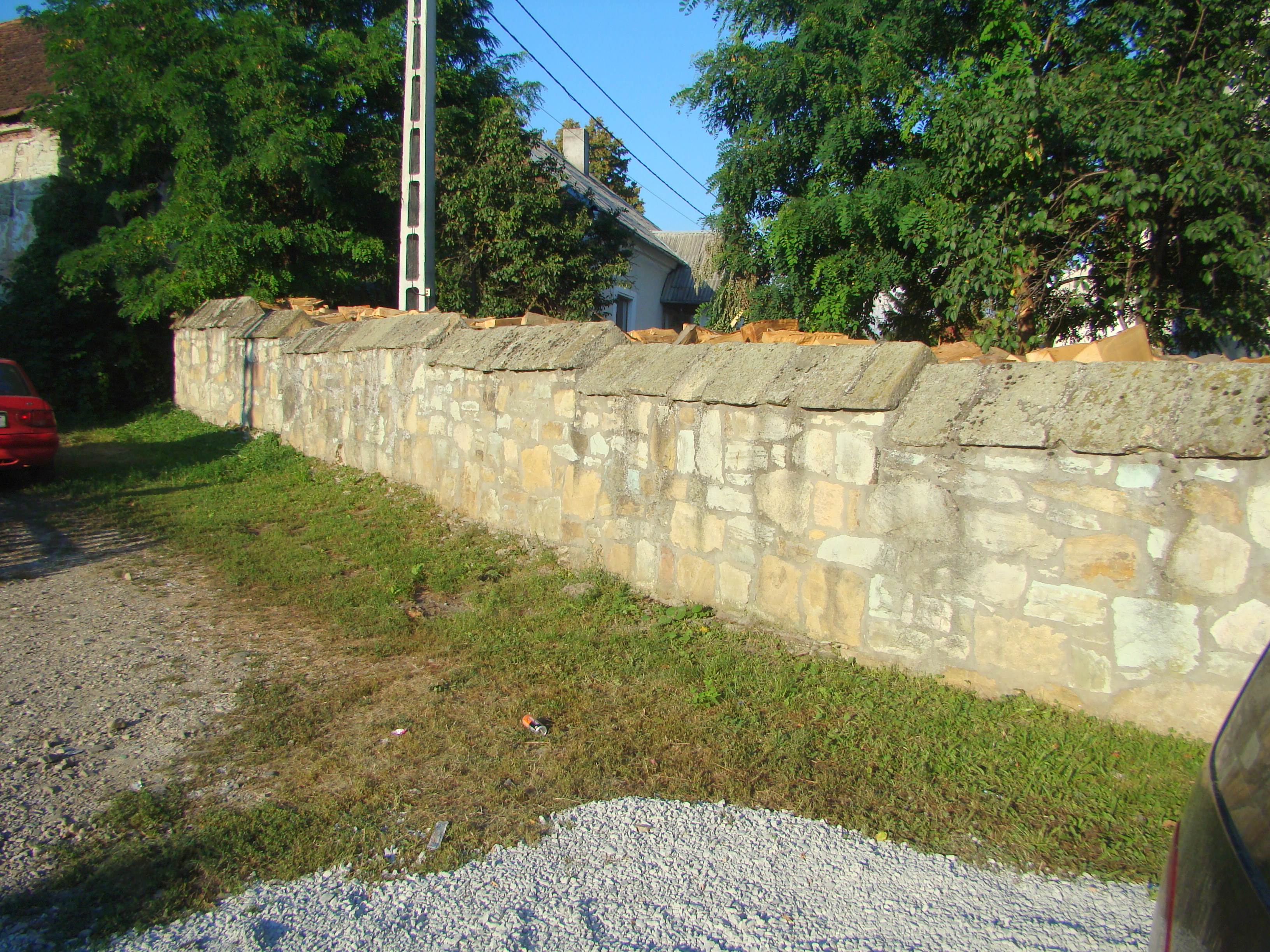 Church of the Annunciation in Cepari, Bistrița-Năsăud county, Romania